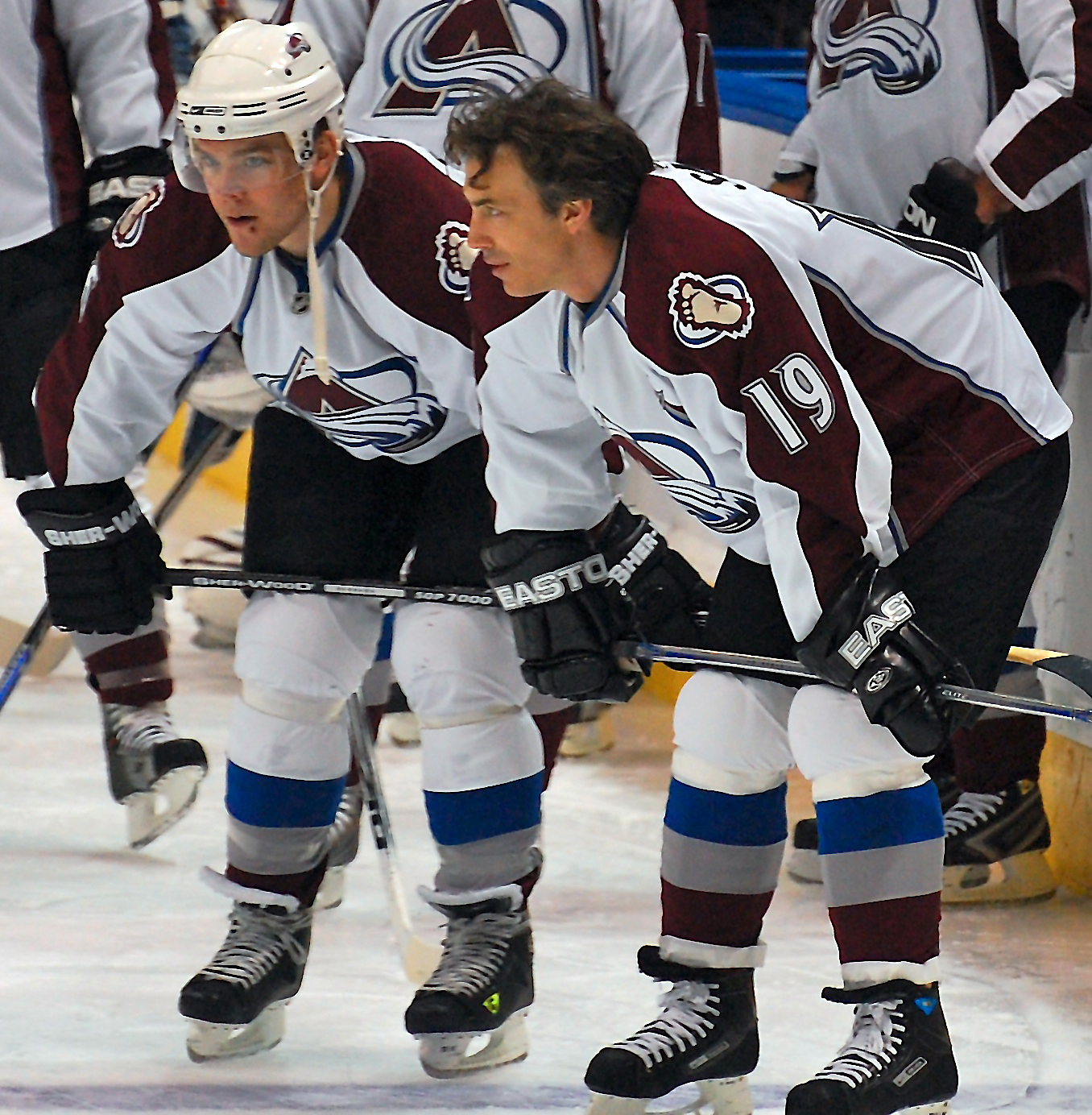 #19 Sakic played for Quebec back in the days and Paul Stastny's dad, Peter, also played with Québec in the 80's, along with his brothers Marian and Anton.